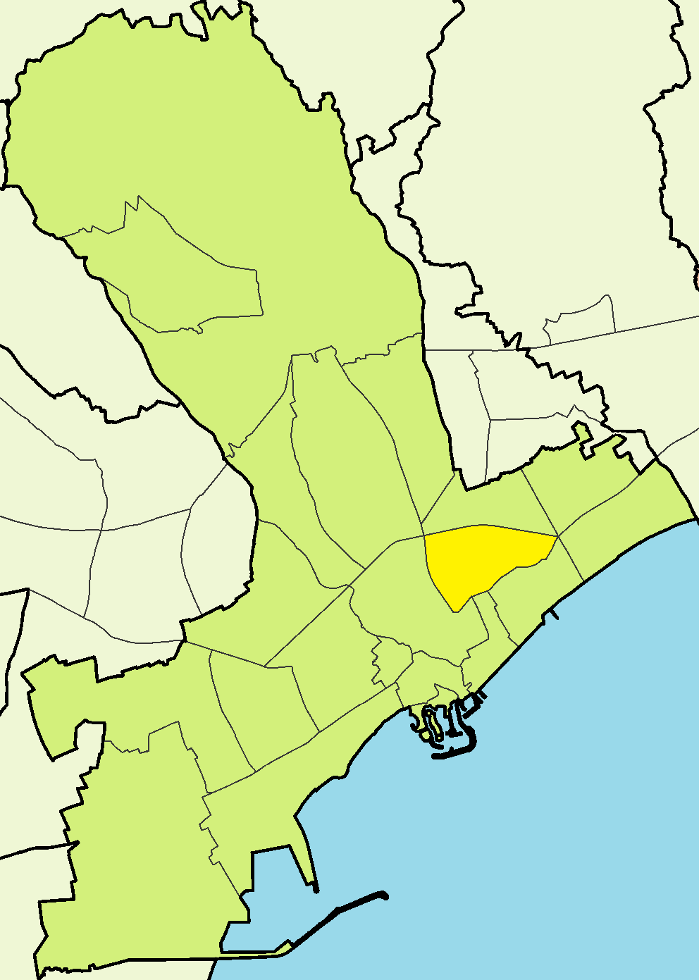 Agia Zoni in Limassol Municipality